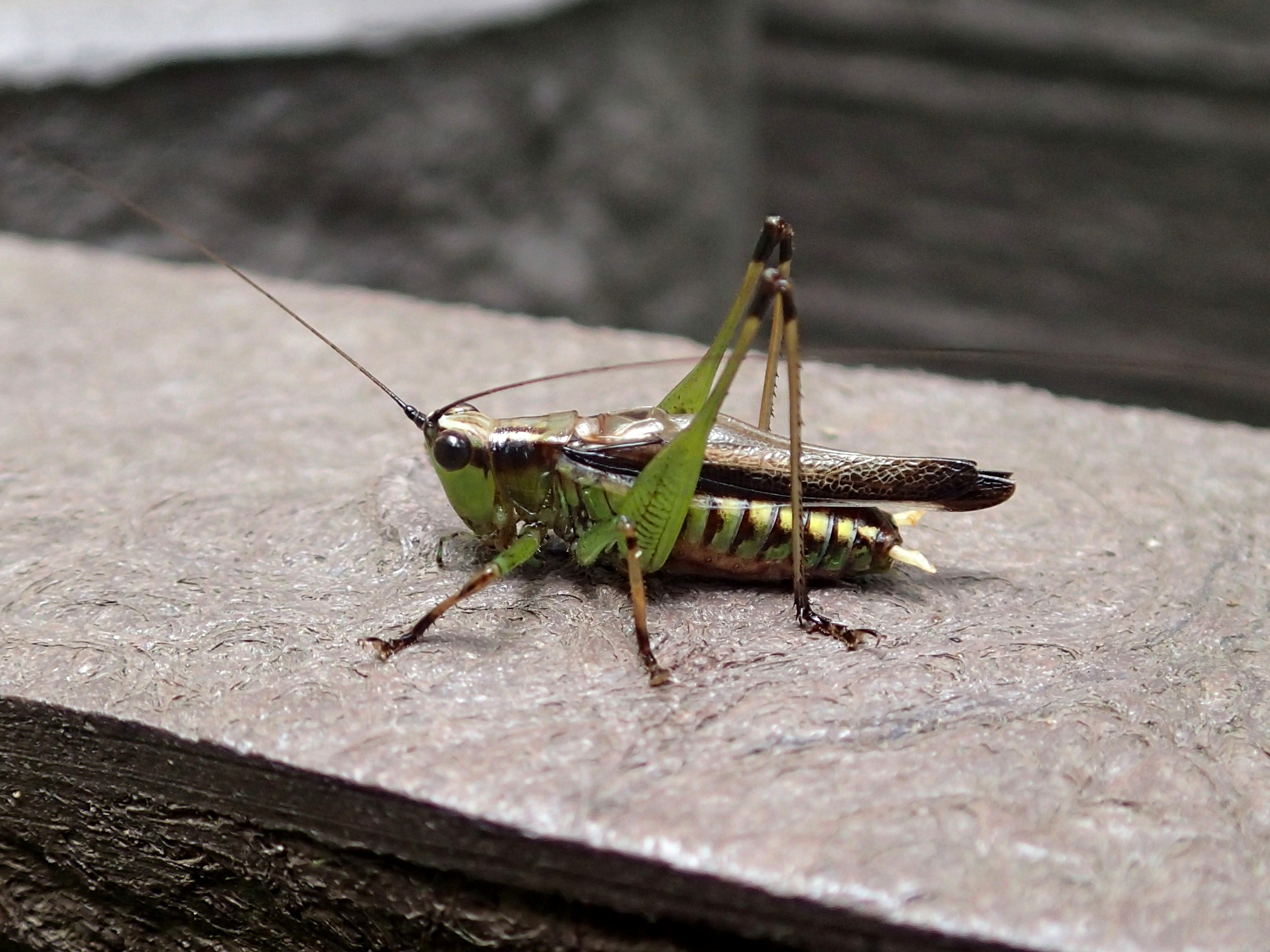 Conocephalus melaenus (de Haan,1842) (Tettigoniidae: Conocephalinae: Conocephalini), a male from Yokohama, Japan.